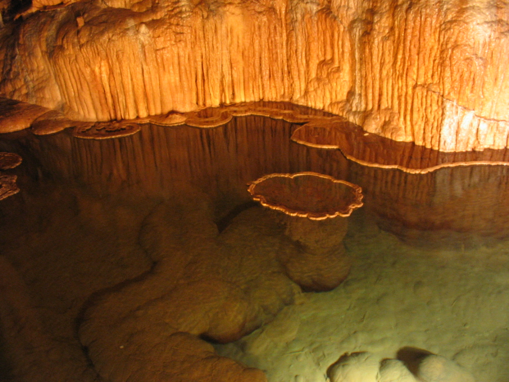 The "lily pad room" in Onondaga Cave in Missouri